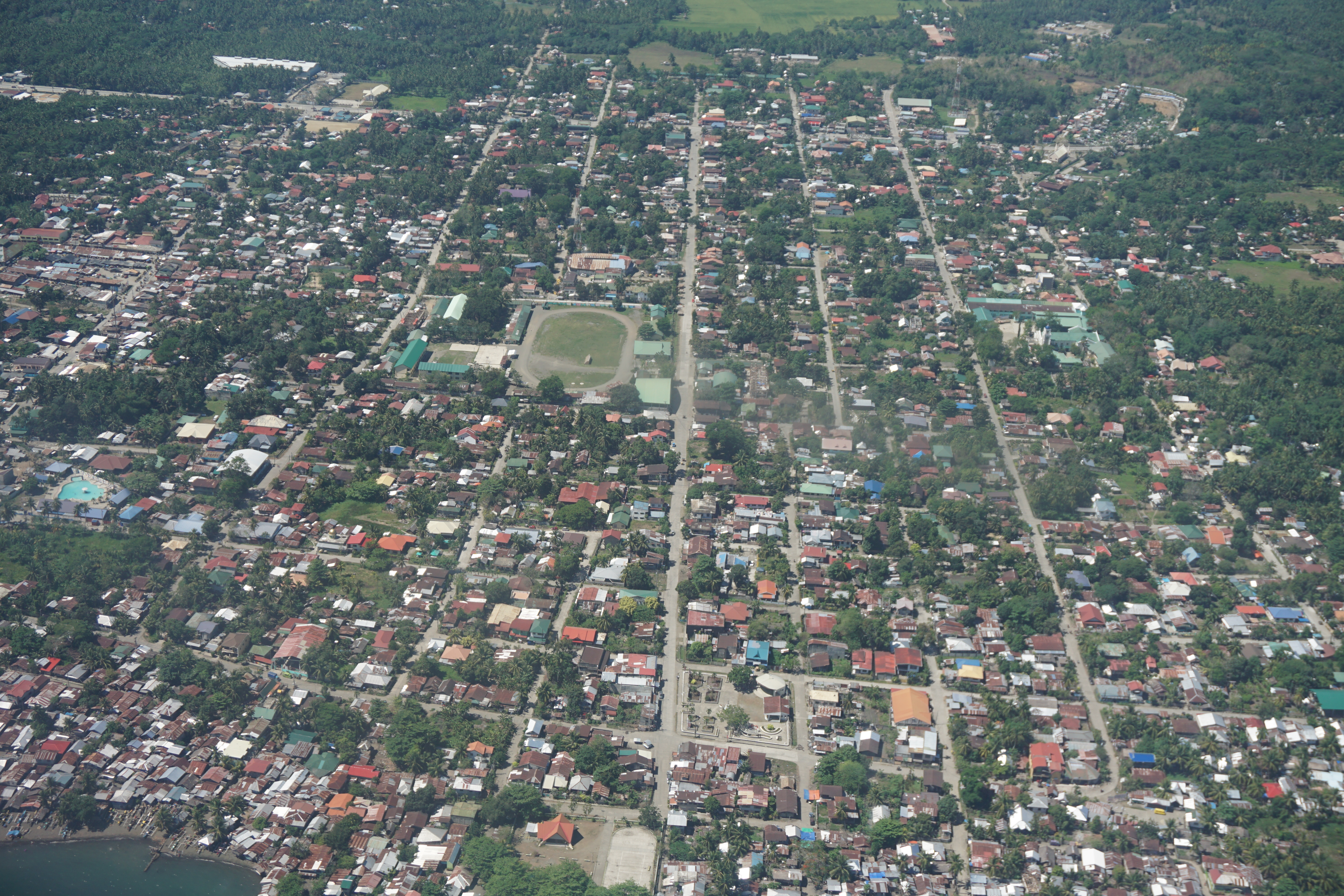 Aerial view of Buenavista, Agusan del Norte.